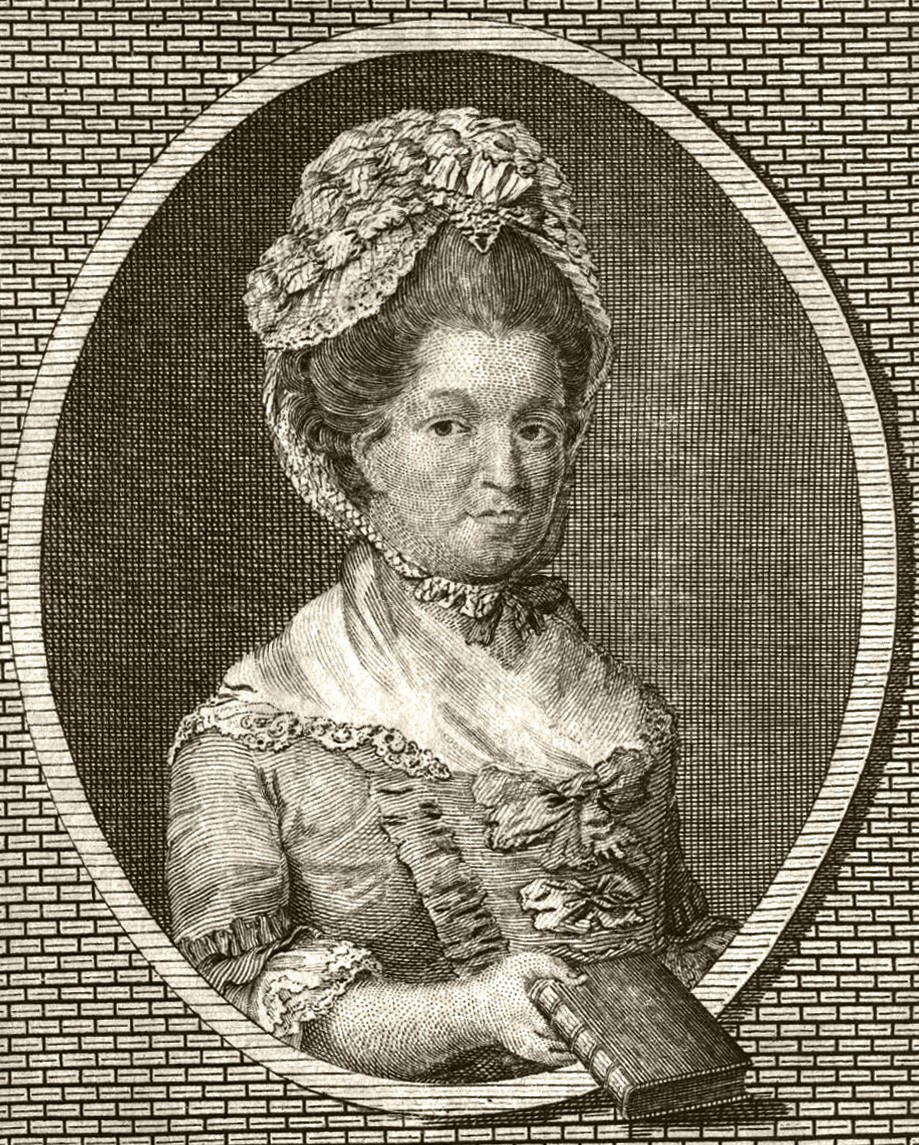 Elizabeth Raffald (1733-1781). From the 1782 edition of The Experienced English Housekeeper published by Baldwin